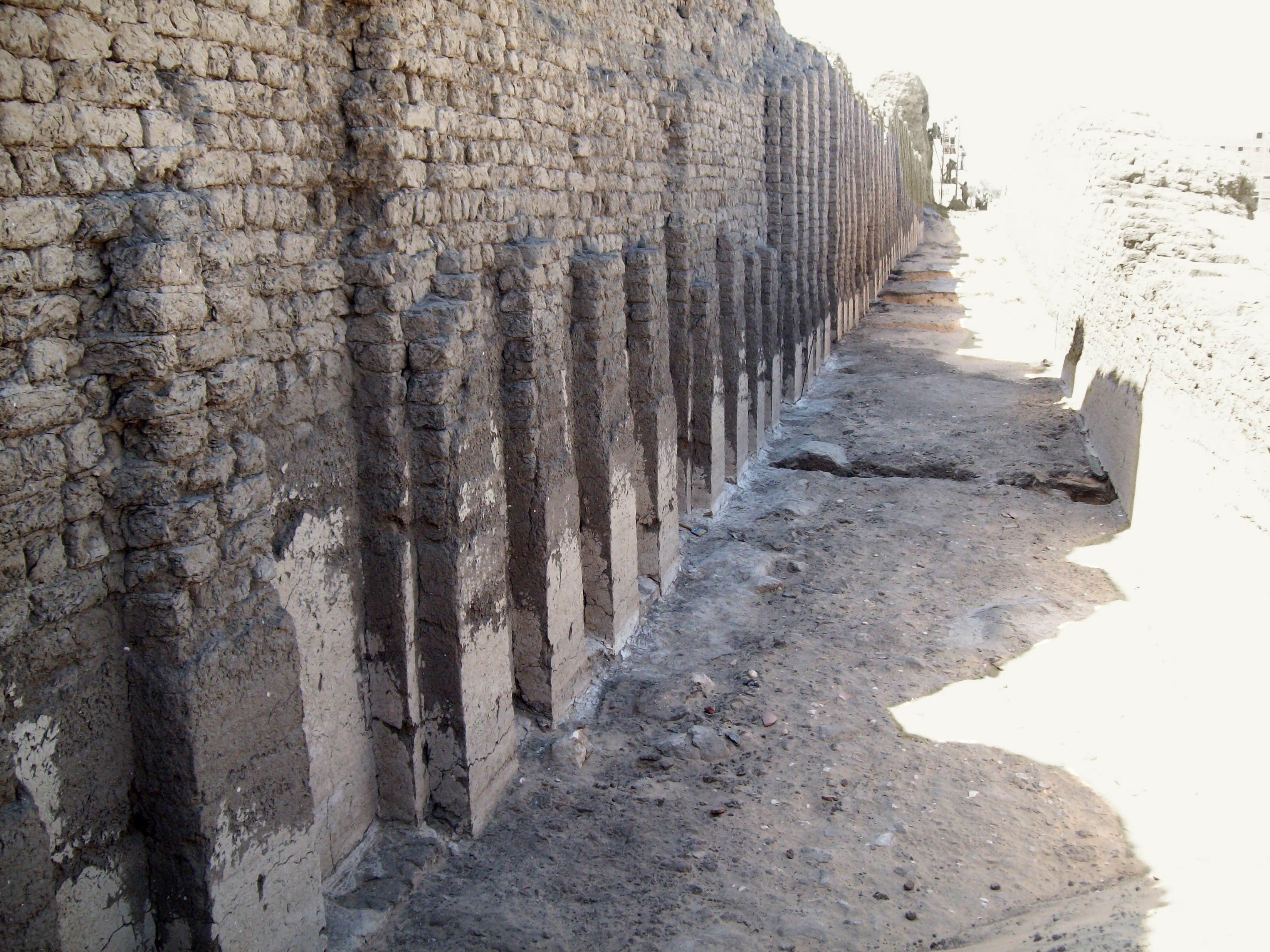 Abydos /əˈbaɪdɒs/ is one of the oldest cities of ancient Egypt, and also of the eighth nome in Upper Egypt, of which it was the capital city. It is located about 11 kilometres (6.8 miles) west of the Nile at latitude 26° 10' N, near the modern Egyptian towns of el-'Araba el Madfuna and al-Balyana. The city was called Abdju in the ancient Egyptian language (ꜣbdw or AbDw as technically transcribed from hieroglyphs) meaning "the hill of the symbol or reliquary", a reference to a reliquary in which the sacred head of Osiris was preserved.